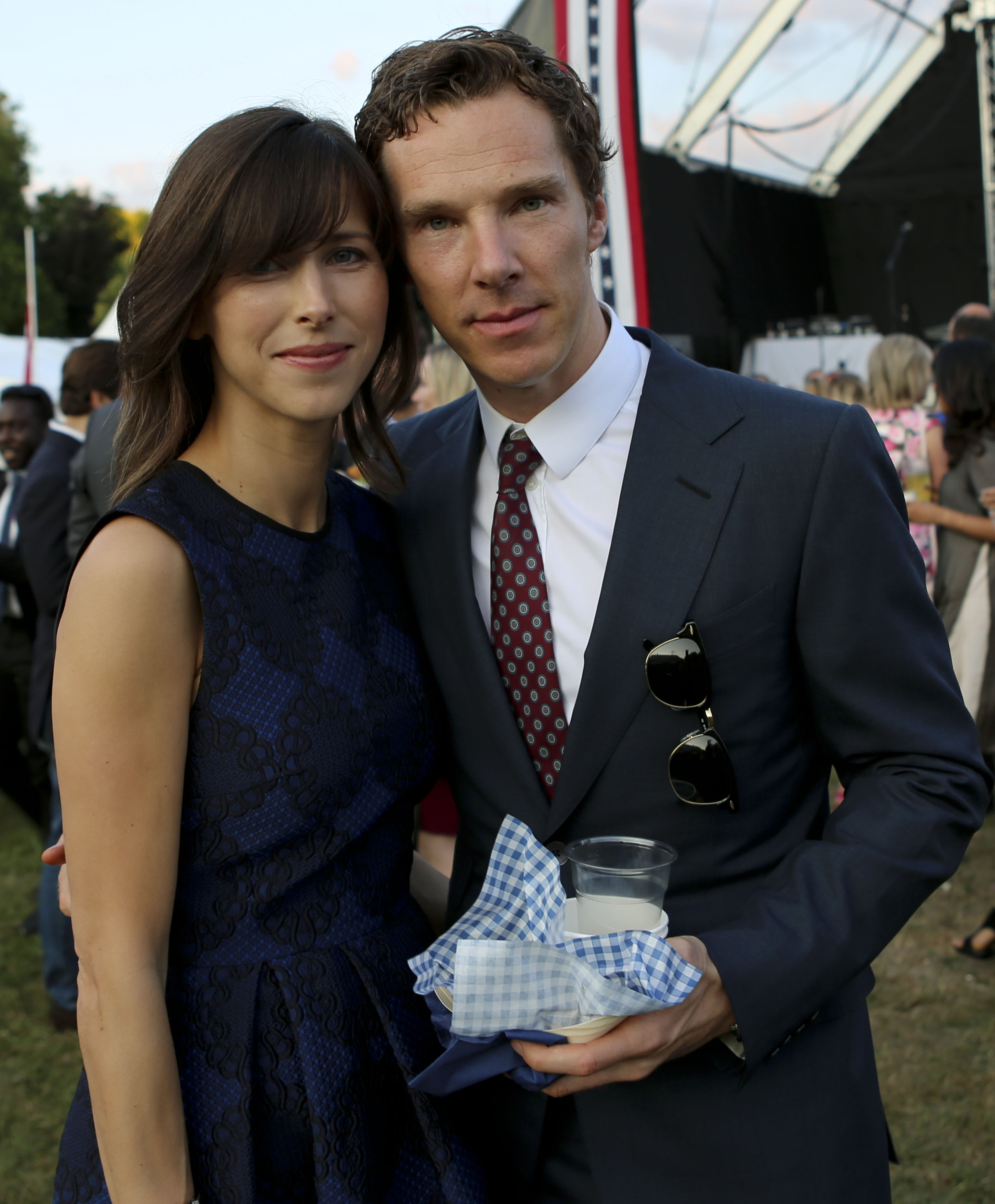 Sophie Hunter and Benedict Cumberbatch at the July 4th celebration at Winfield House